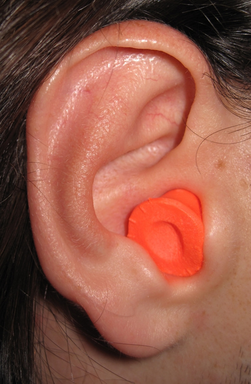 A foam earplug in the ear.